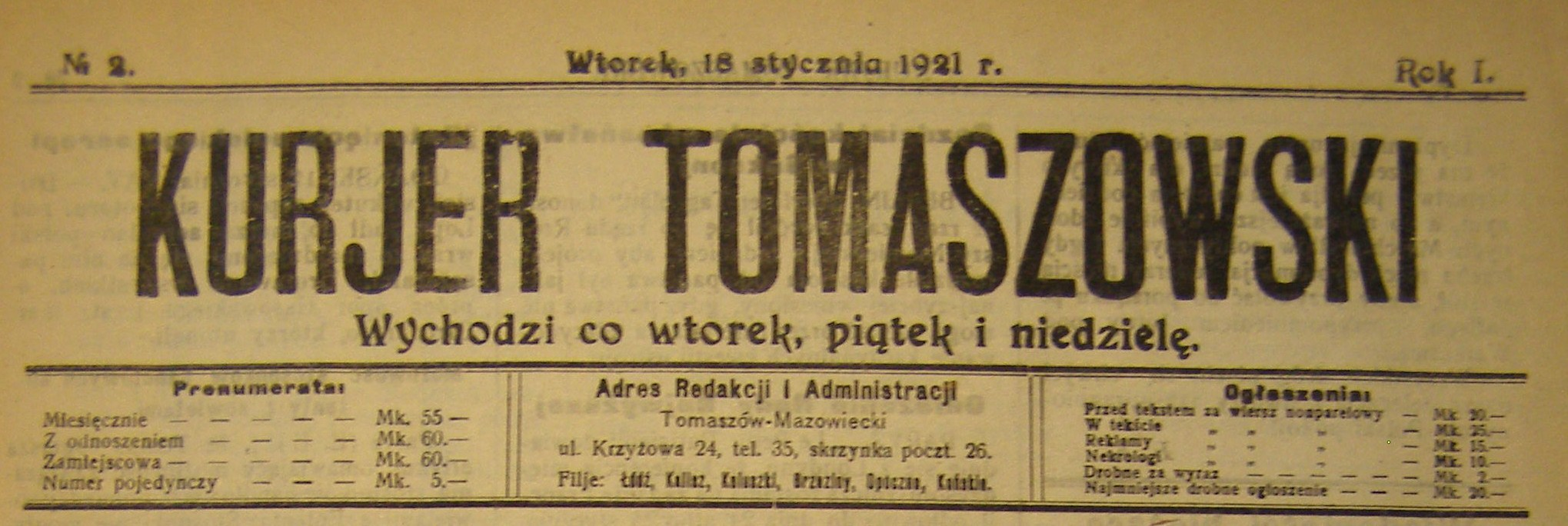 Kurier Tomaszowski 1921